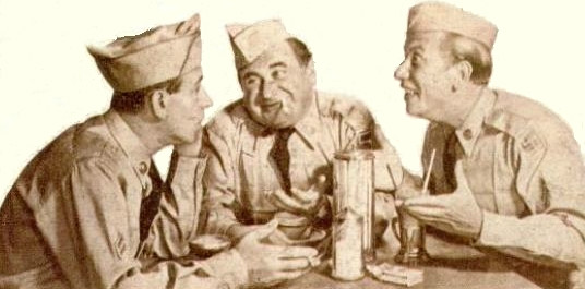 Life magazine ad for Camel cigarettes featuring Maurice Gosfield (Pvt. Doberman) and Allan Melvin (Cpl. Henshaw), 1955. Photo from ad. Copyright details There are no copyright marks on the full pages of the ad, as can be seen at the link above. The pages are clearly marked as advertisements, so they are not a part of any Life Magazine copyrights. US Copyright Office page 3-magazines are collective works (PDF) "A notice for the collective work will not serve as the notice for advertisements inserted on behalf of persons other than the copyright owner of the collective work. These advertisements should each bear a separate notice in the name of the copyright owner of the advertisement." Image can be dated from the magazine's date, 4 March 1957. Image was cropped and text removed.